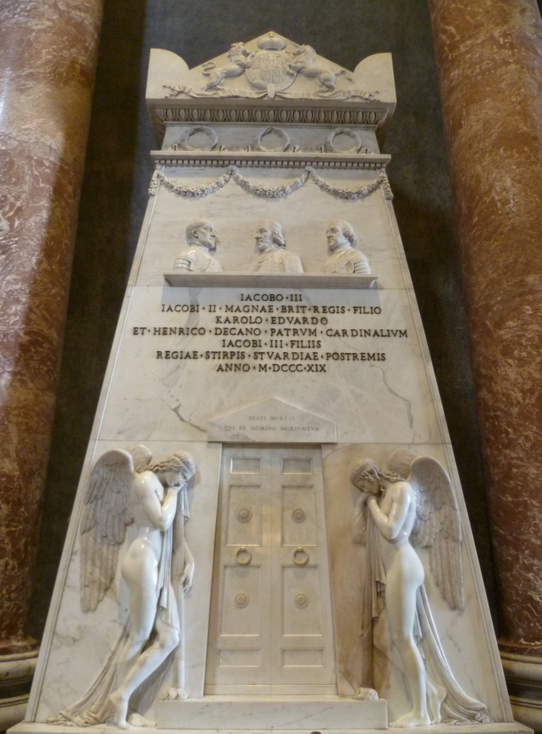 Monument to the Royal Stuarts by Antonio Canova, depicting James Edward Stuart, the 'Old Pretender' who styled himself King James III, flanked by his two sons, Charles Edward and Henry Benedict, in St Peter's Basilica, Rome